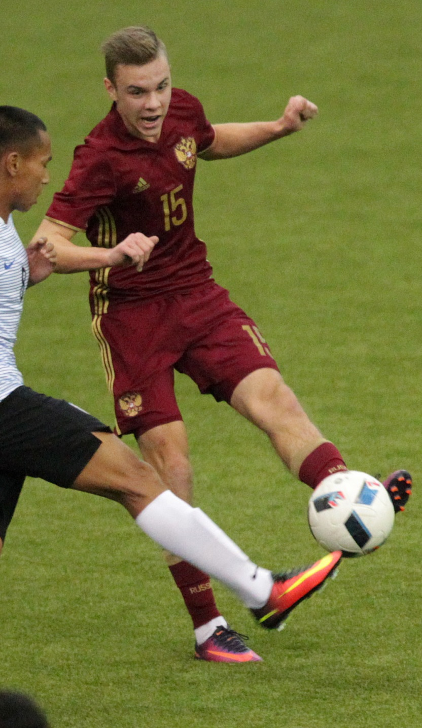 Maksim Glushenkov in action for Russia U-18 in a game against India U-18 at the Granatkin Memorial.